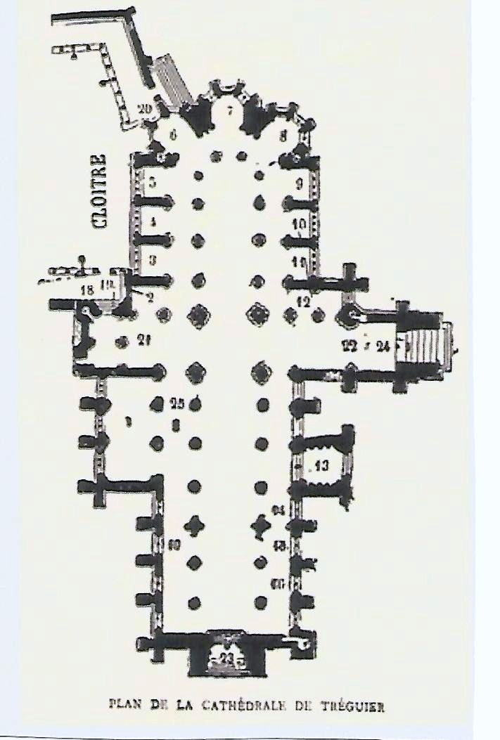 Internal plan of Treguier Cathedral